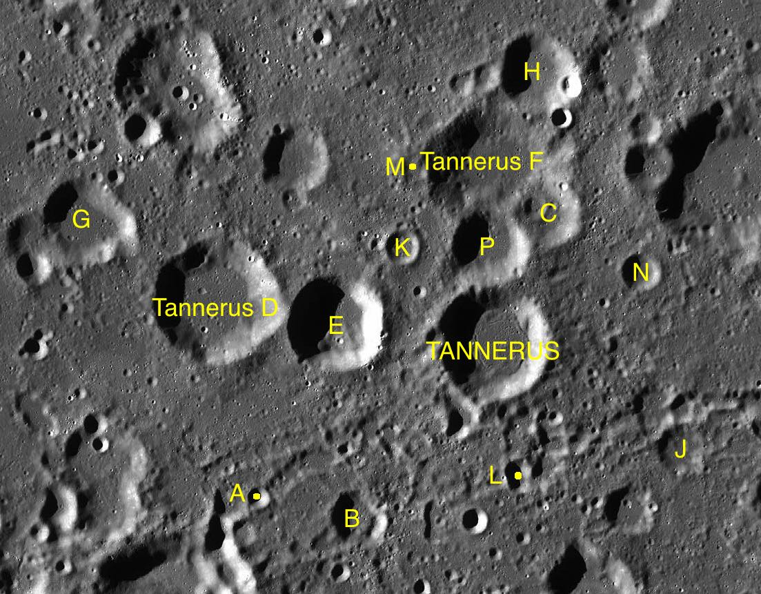 Part of the chart LAC-127 used for the presentation